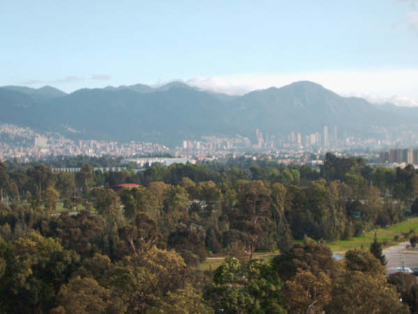 Bogotá, Colombia is located in a high plateau, over 8,600 ft (2,600 m) high.